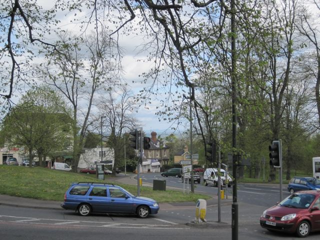 Photo: Link Top, an area of Malvern, England